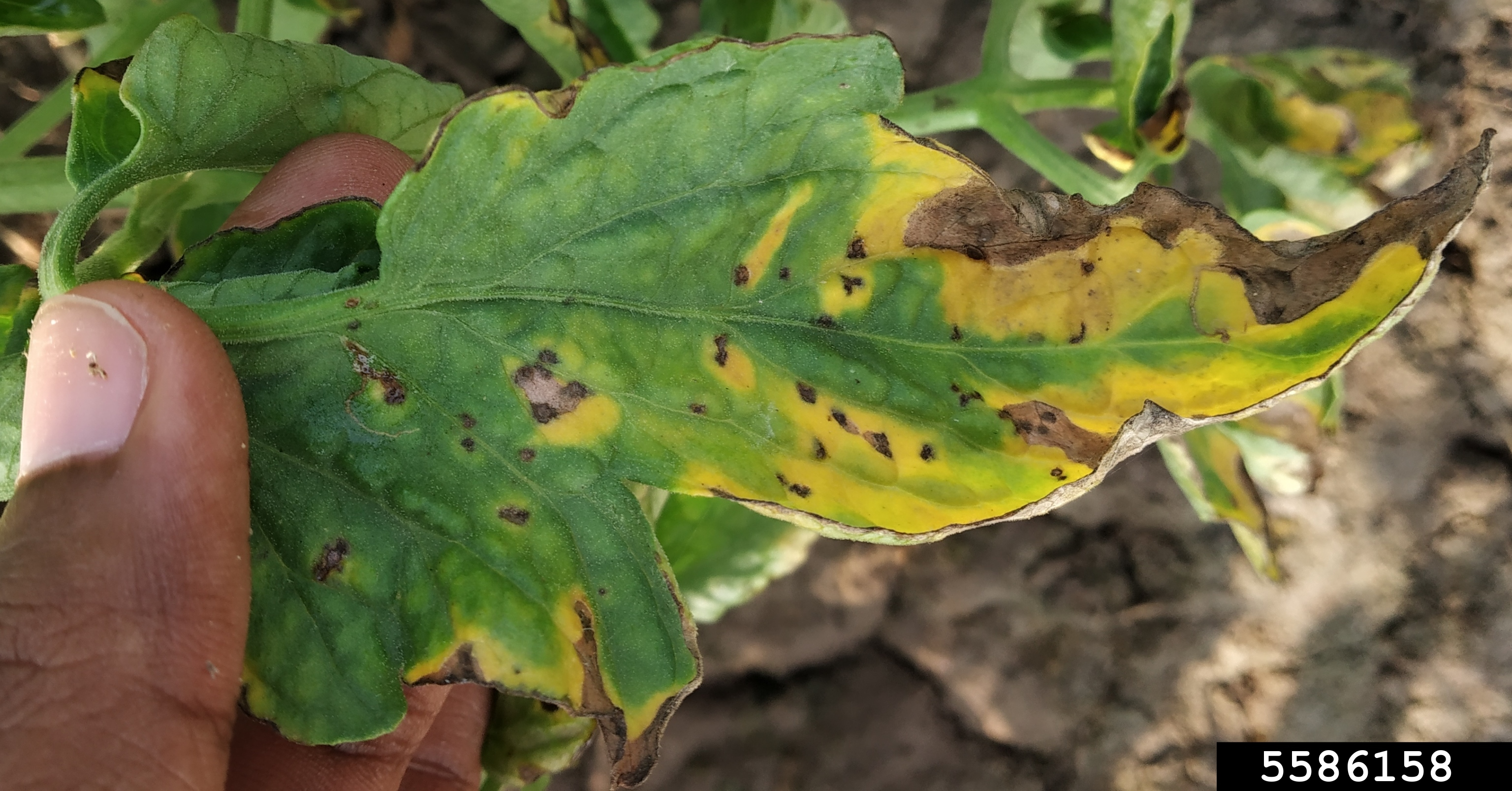 Septoria leaf spot of tomato